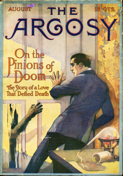 The Argosy, August 1915